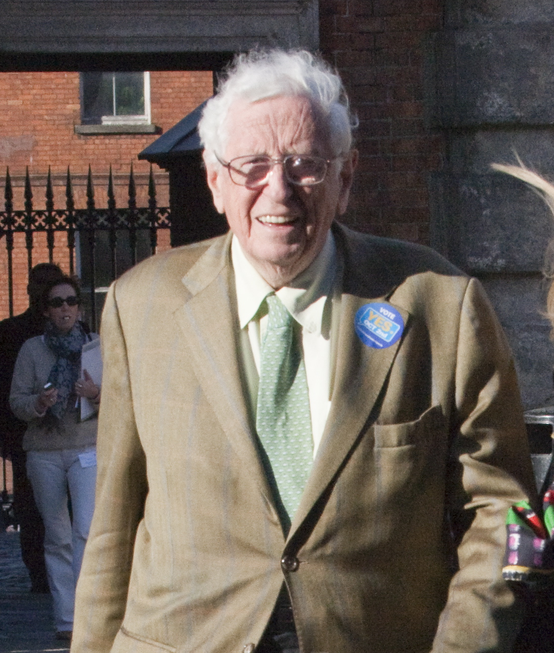 Crop of Garret FitzGerald arriving for The Lisbon Treaty Count